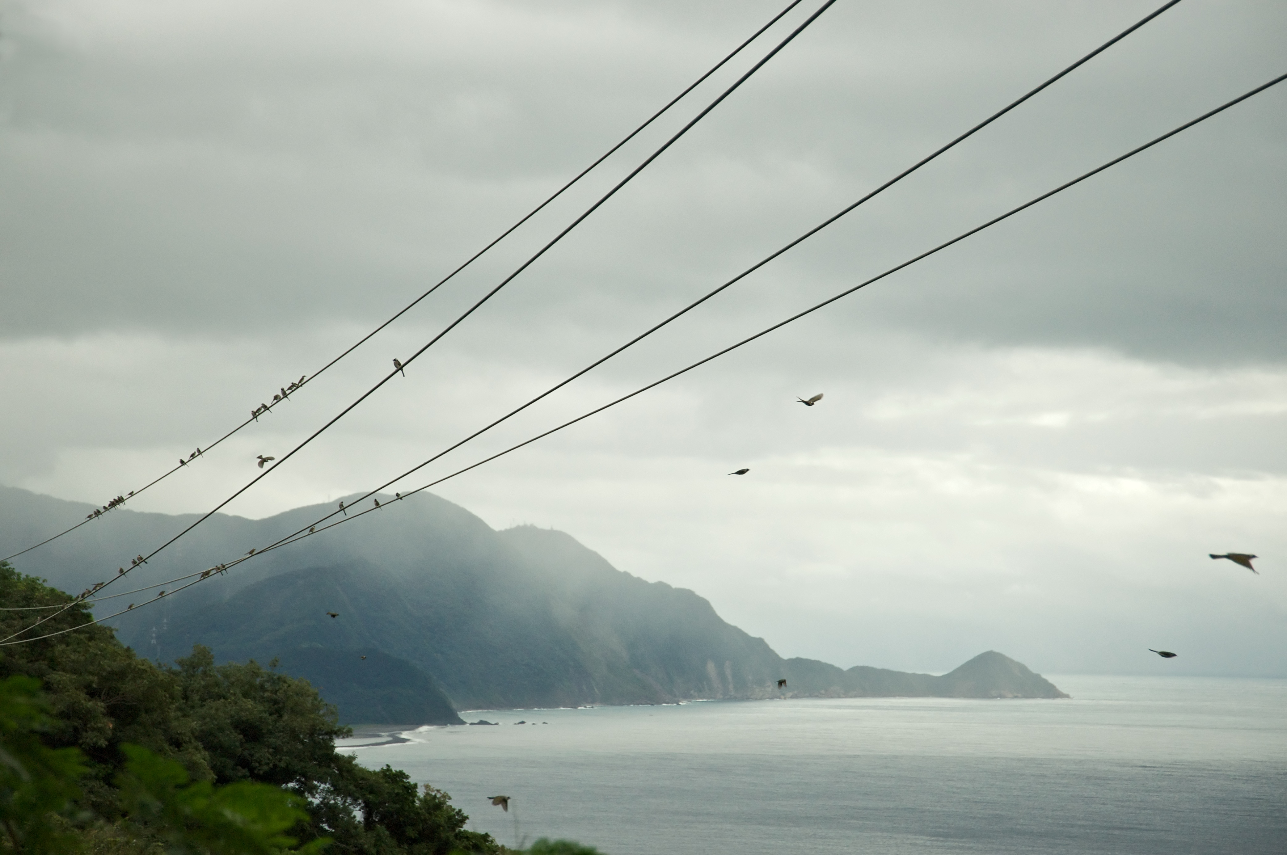 WuShihBi Cape seen from the SuHua Highway, a scenic drive on the east coast of Taiwan